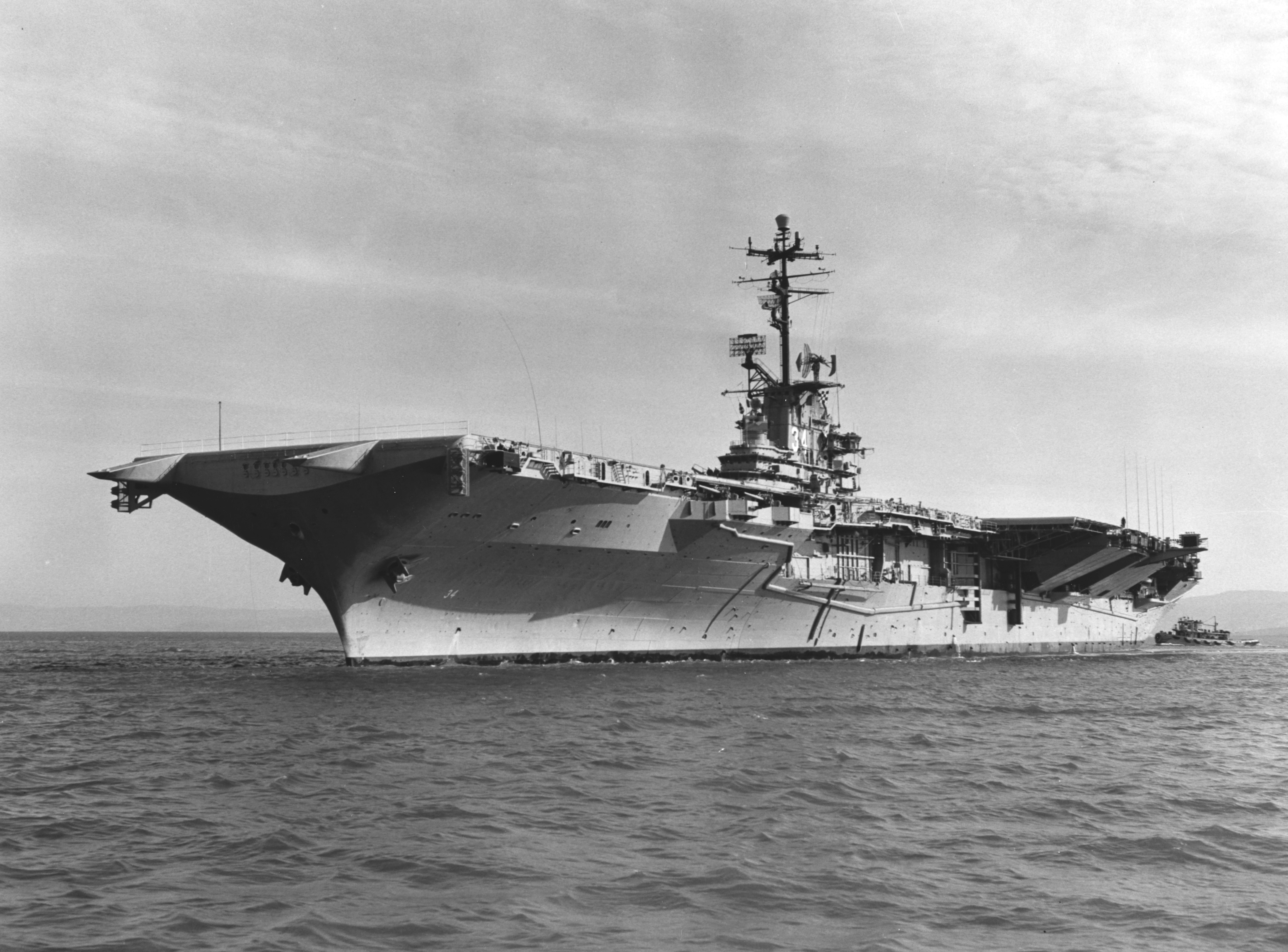 The U.S. aircraft carrier USS Oriskany (CVA-34) off the San Francisco Naval Shipyard, California (USA), on 27 April 1959, following installation of her new angled flight deck and hurricane bow.